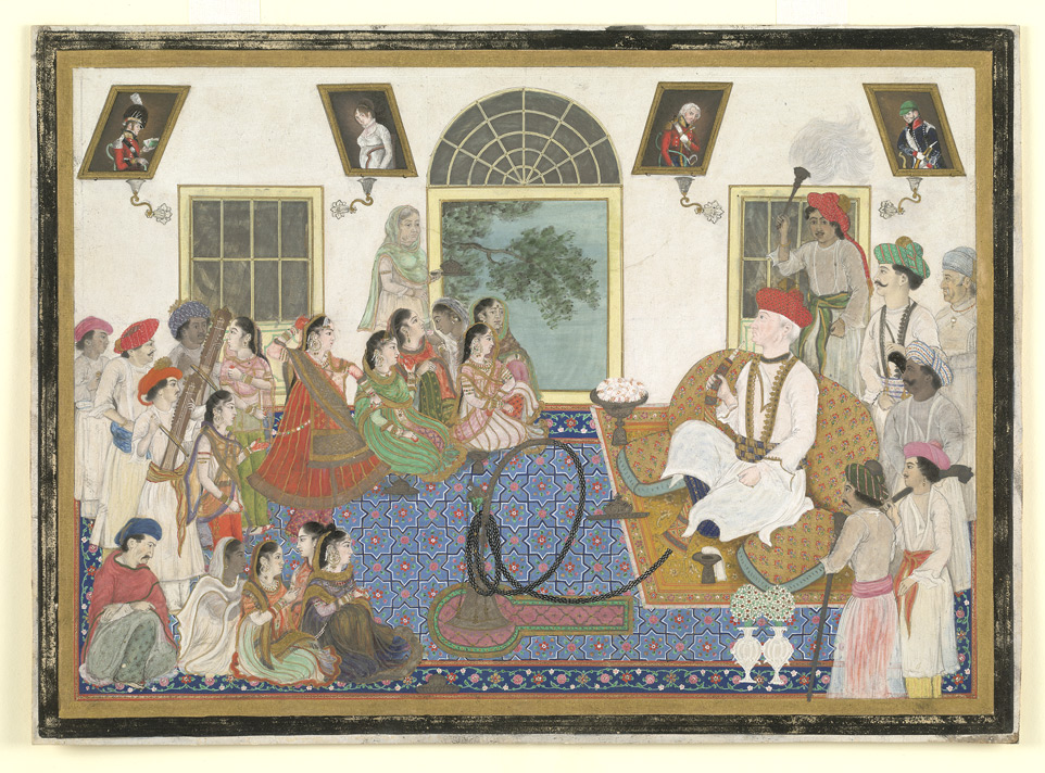 Watercolor of Sir David Ochterlony in Indian attire smoking a hookah in Delhi in the 1820s.